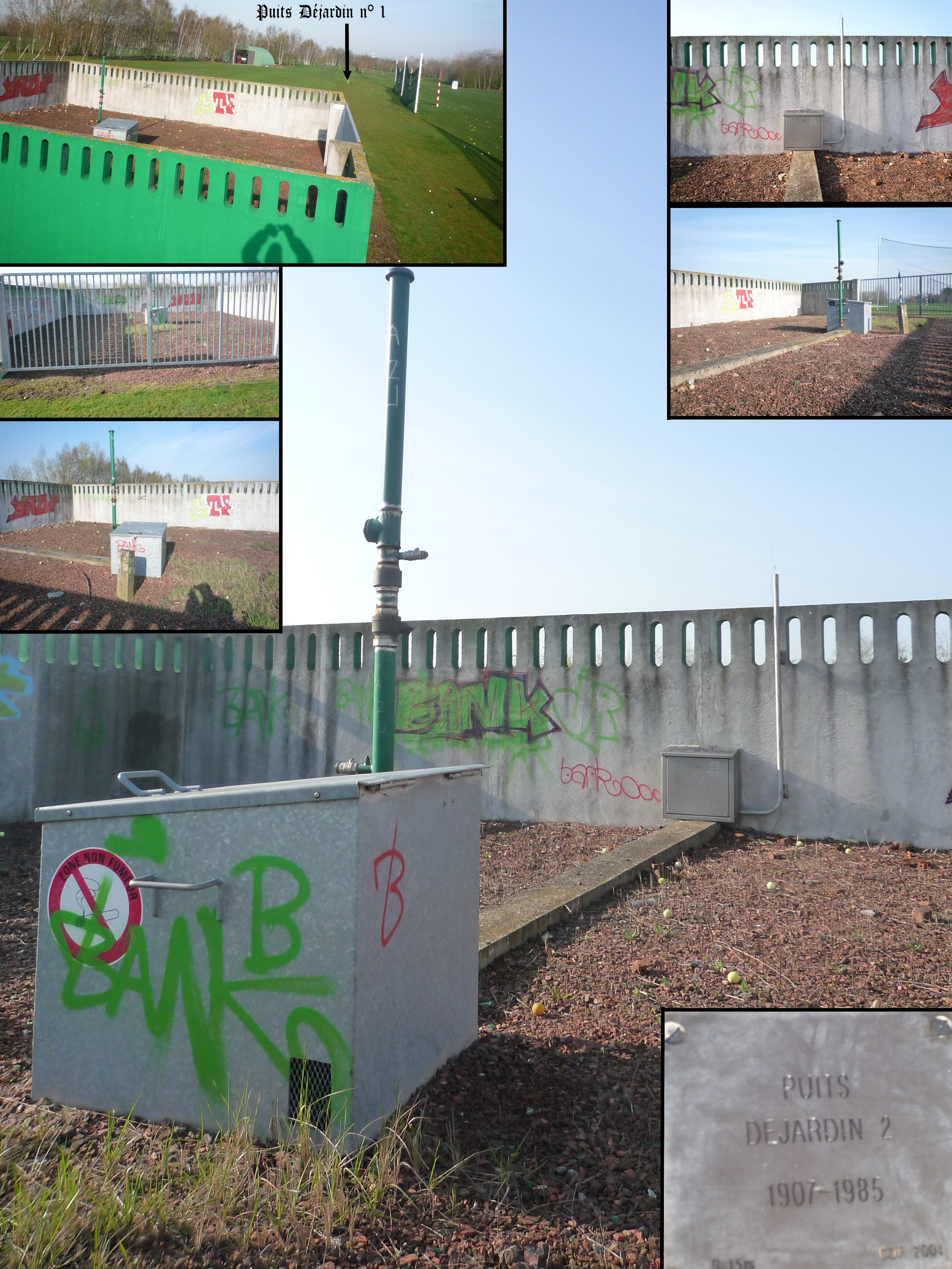 Pit Déjardin #2 at Sin-le-Noble, France.